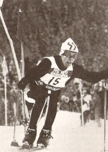 Thöni in the Slalom at the 1970 World Championships Category:Gustav Thöni